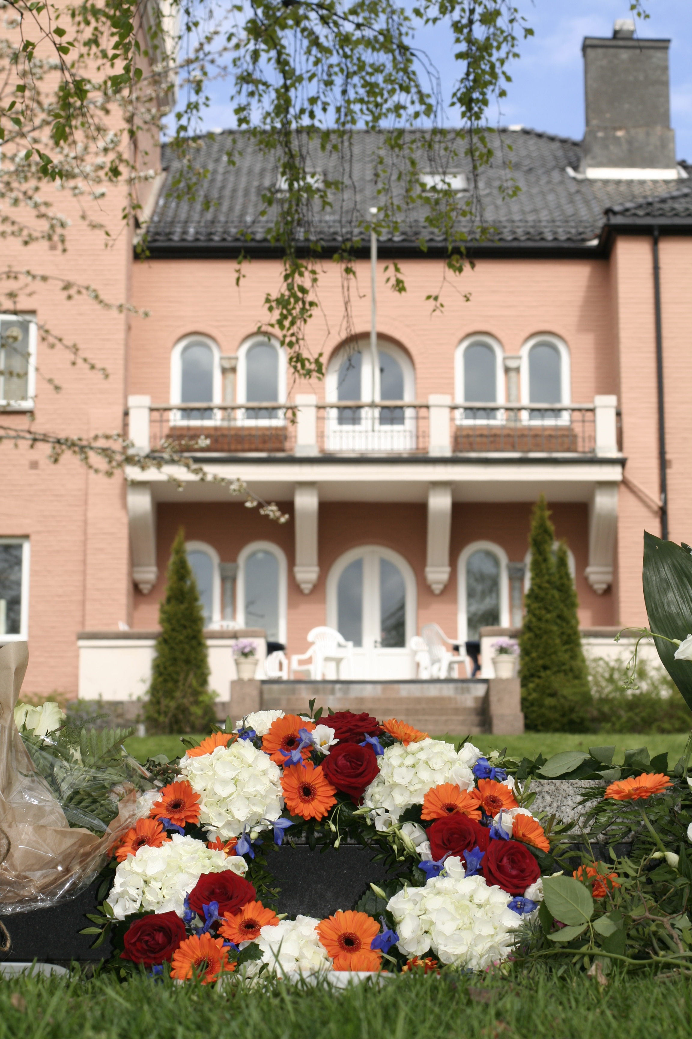 The Fridtjof Nansen Institute at Polhøgda outside Oslo. Fridtjof Nansen's grave (in the forefront) is situated in the garden.